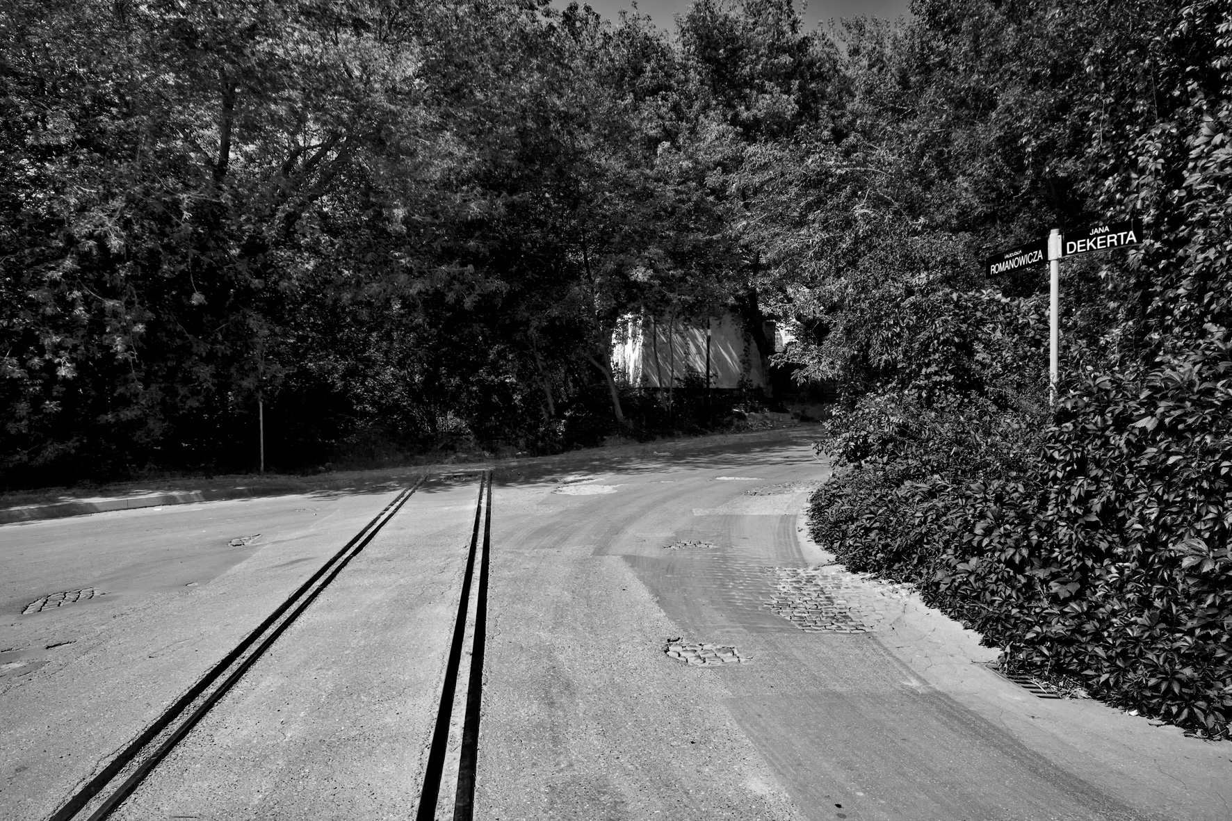 Zabłocie, former railway track, fot. Rafał Sosin